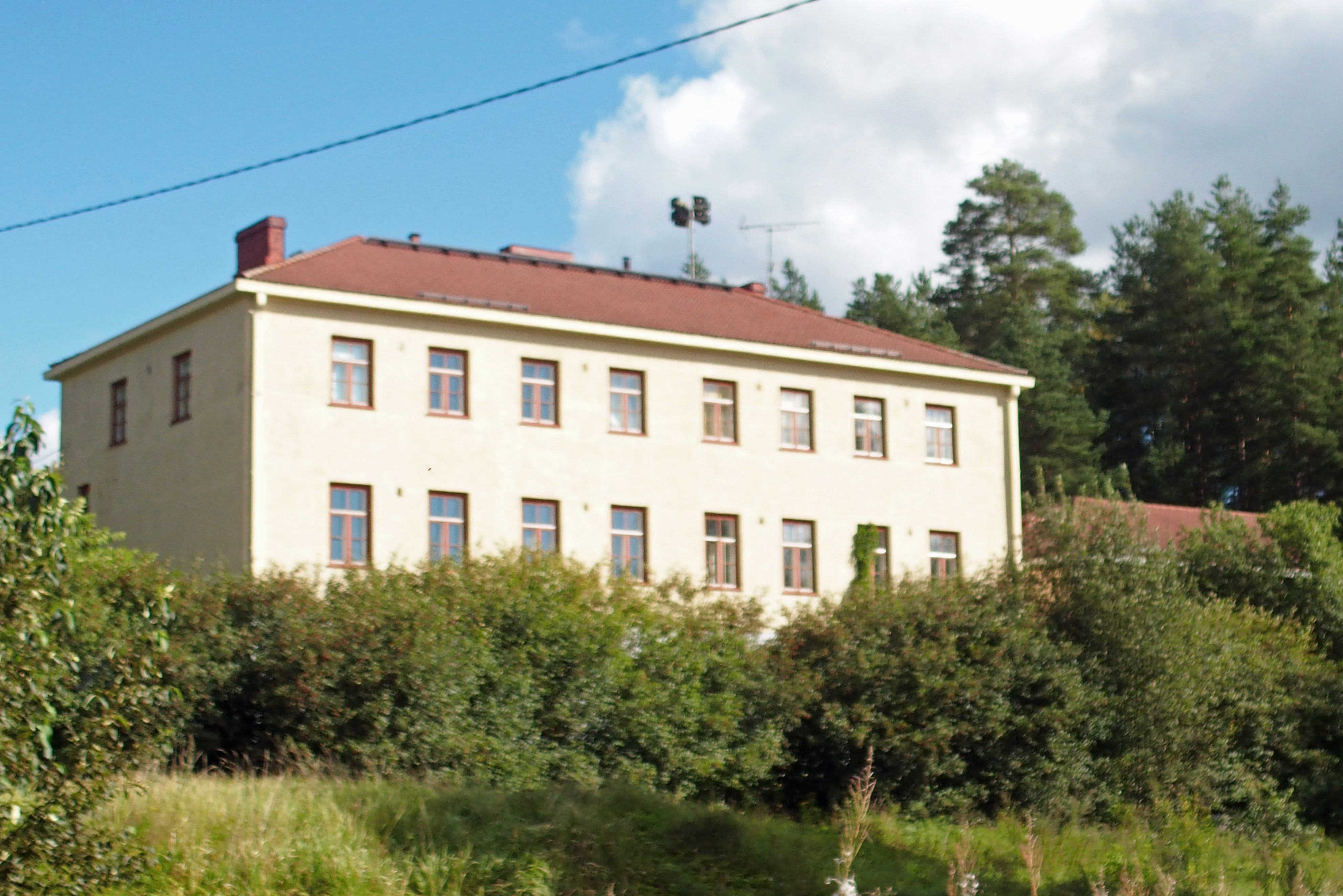 Ars Auttoinen